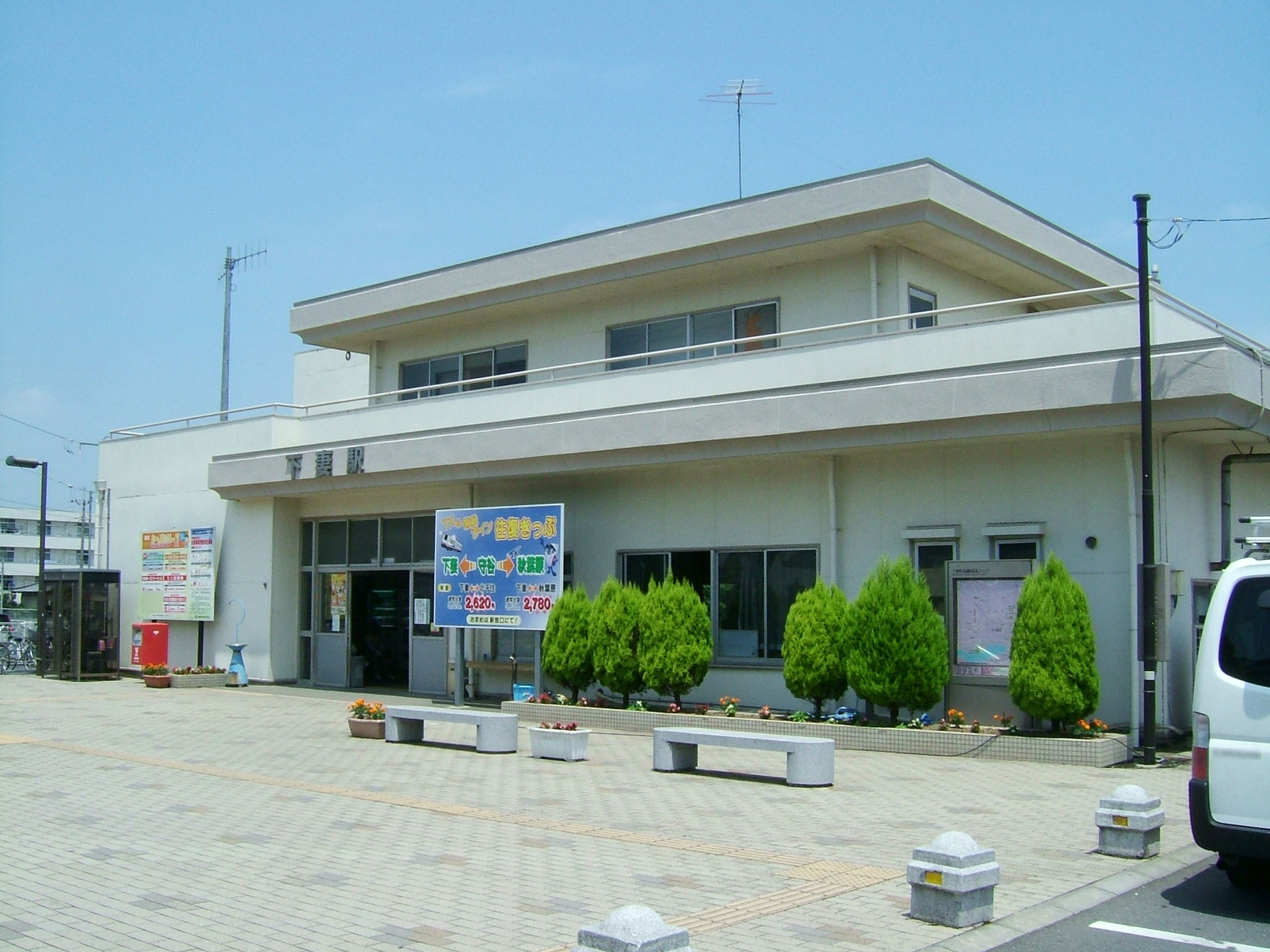 Shimotsuma Station building (Kanto Railway Jōsō Line)